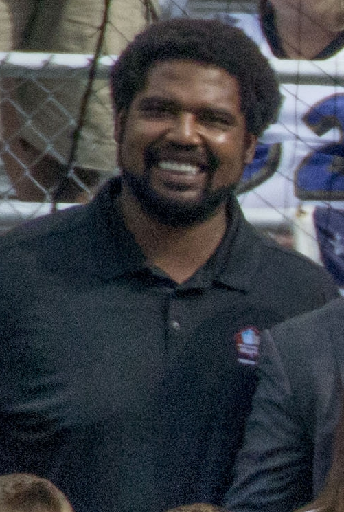 Jonathan Ogden 9/28/14